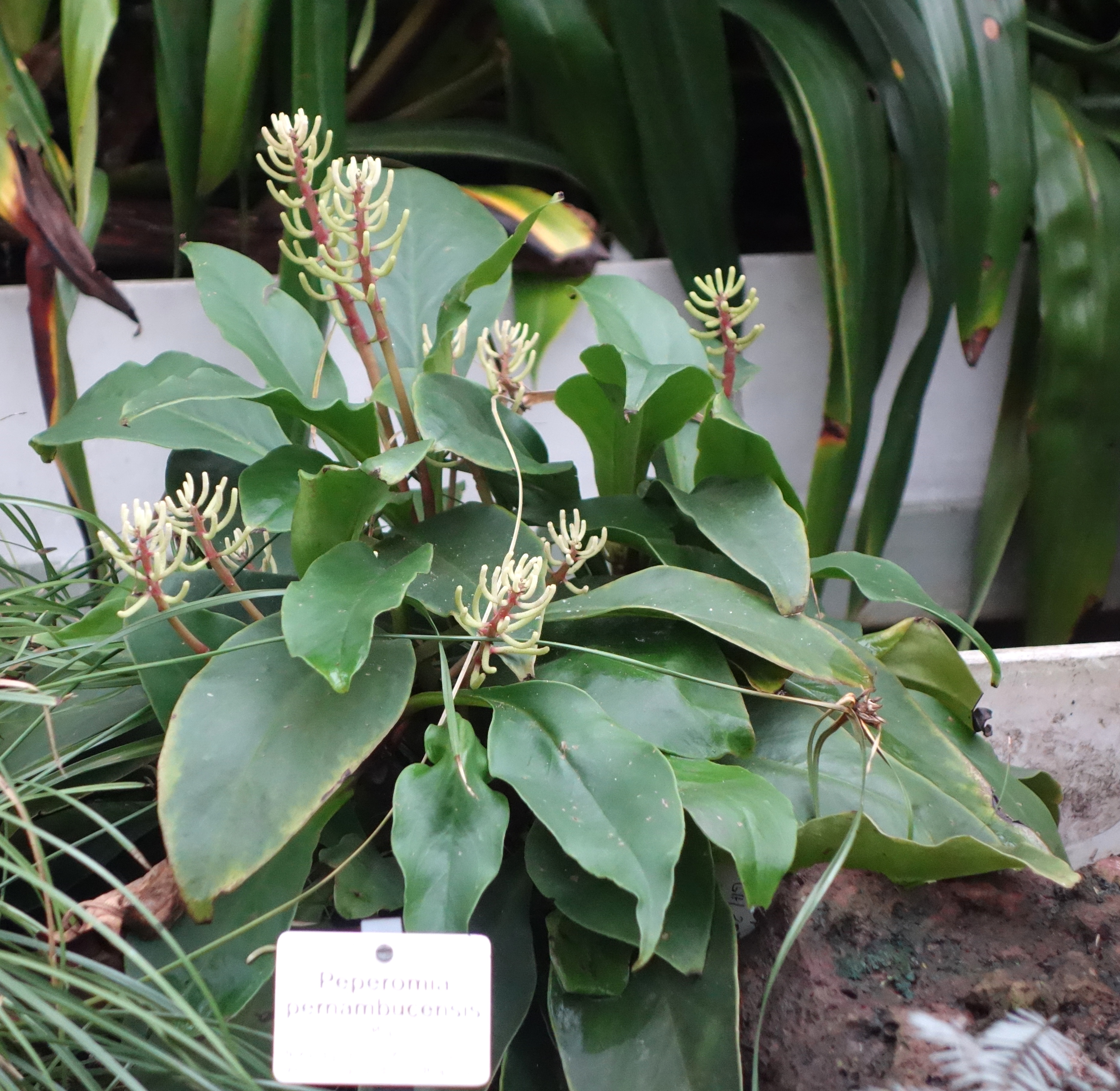 Botanical specimen in the Botanischer Garten, Dresden, Germany.